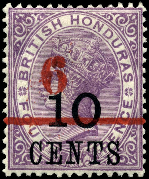 British Honduras 6c overprint stamp of 1891